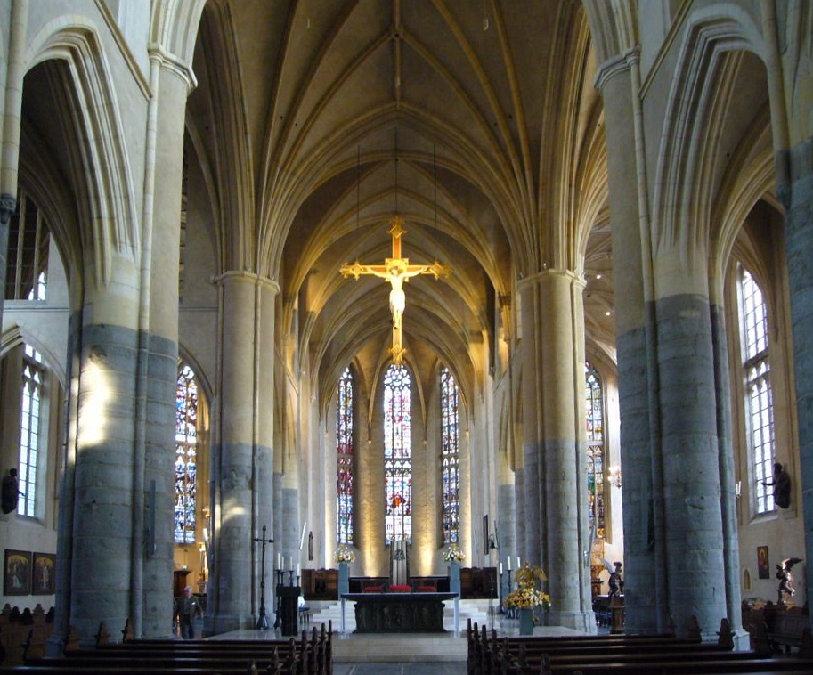 Roermond kathedraal interieur